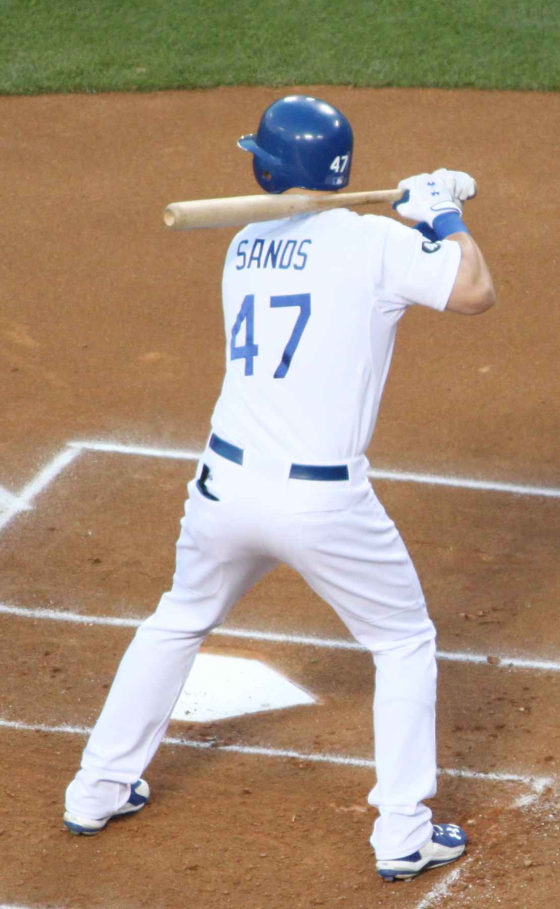 Jerry Sands